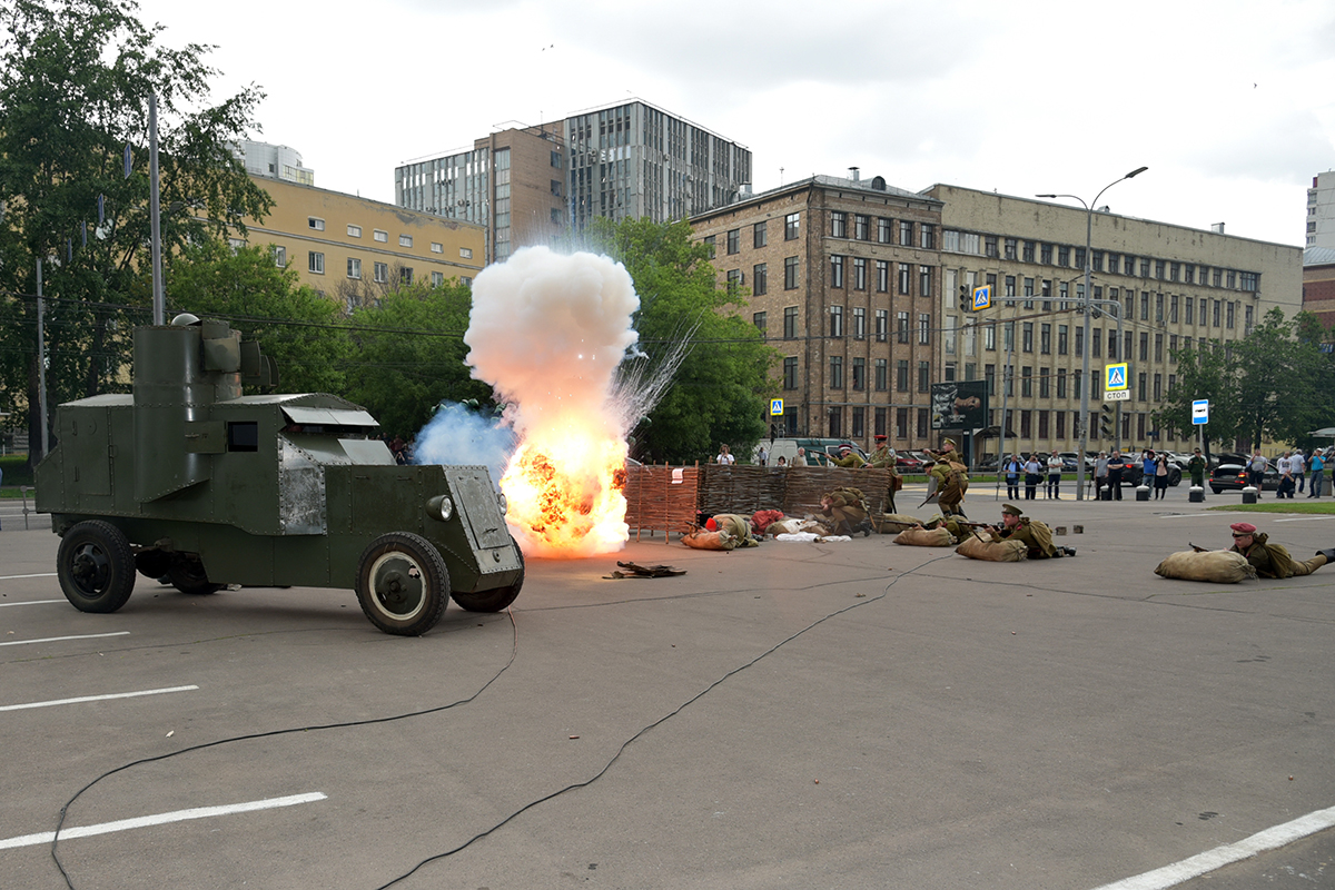 Austin-Putilovets armoured car.